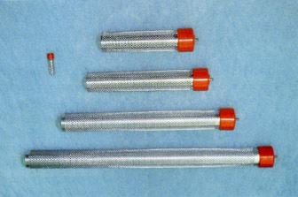 Representation of different size types of ionization tube